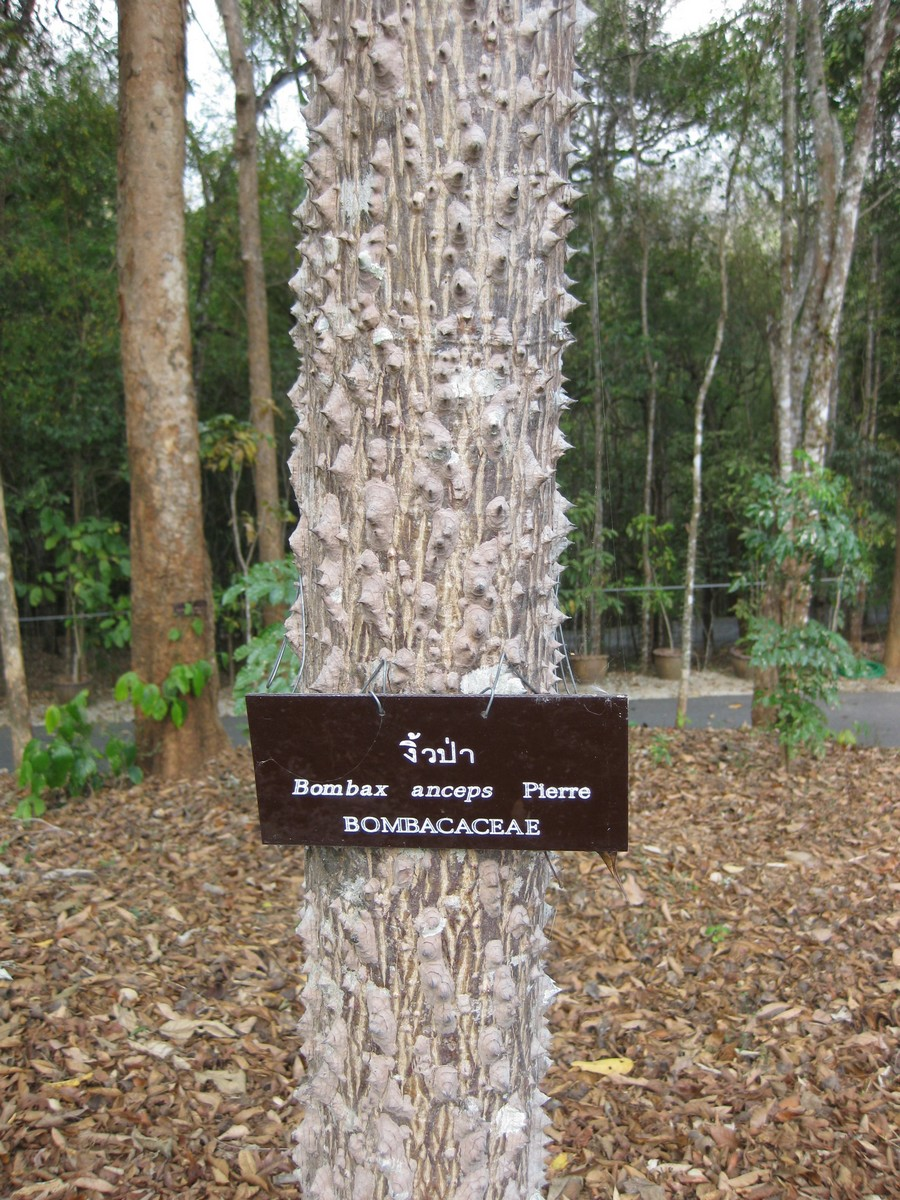 Photographed at the Queen Sirikit Botanic Garden (Chiang Mai Province, Thailand) in March